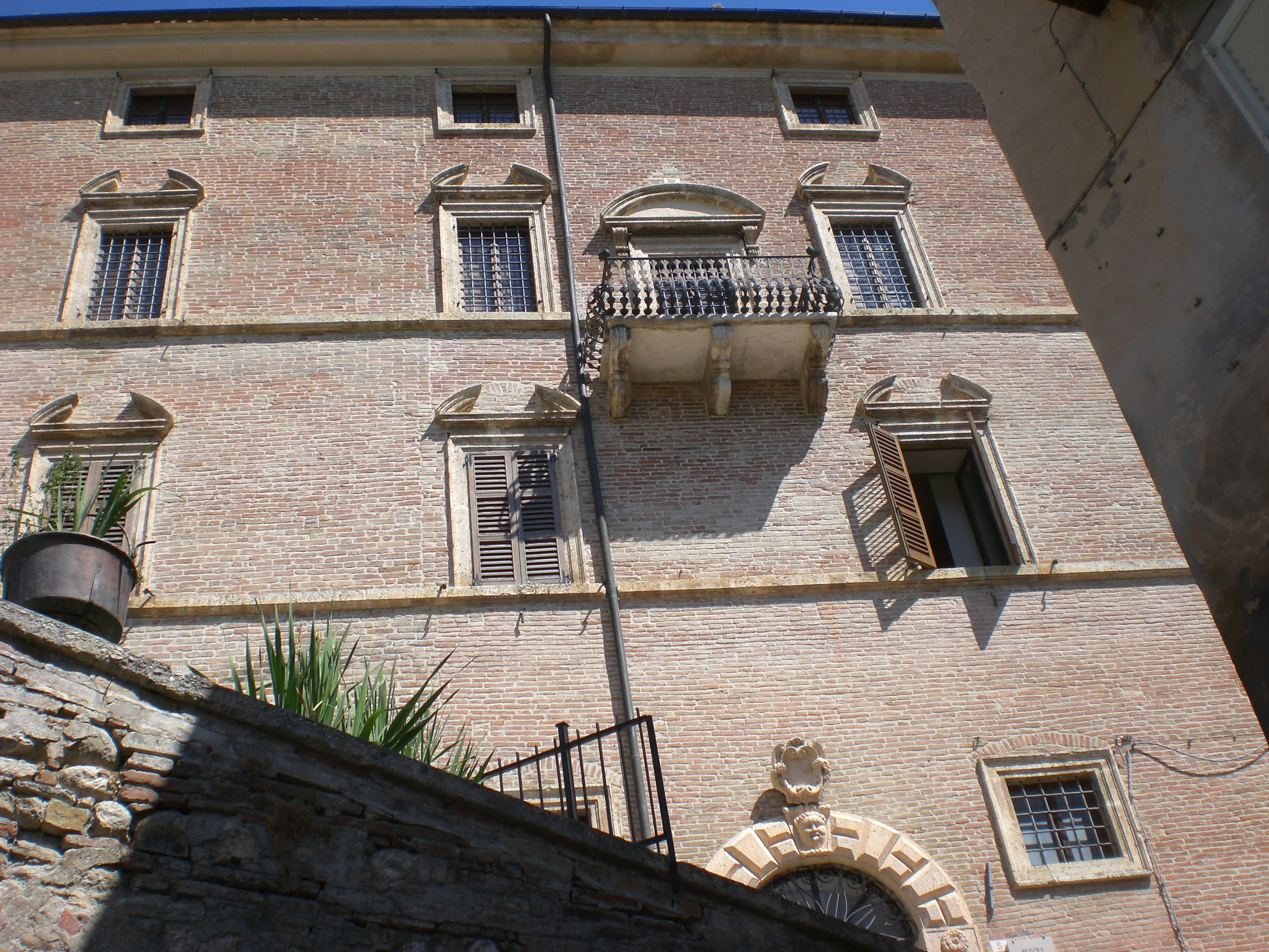 Leopardi Palace, XVI century